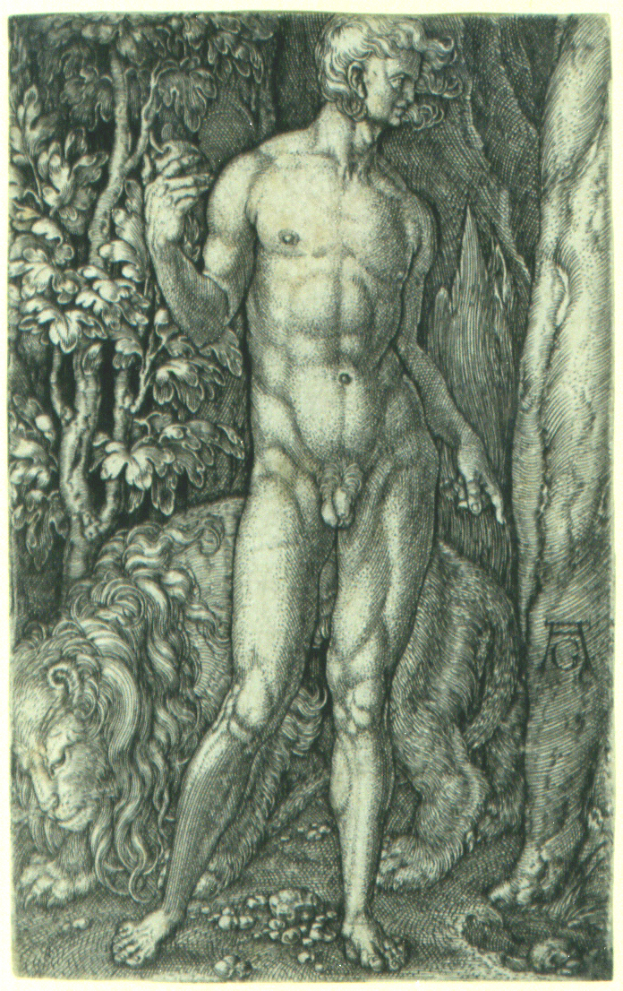 Aldegrever, Heinrich (1502-1555/61): Adam and the Lion. Engraving, ca 1540. Bartsch, Hollstein 11. 91 X 62 mm. A fine impression in good condition, trimmed on or just into the platemark (Bartsch calls for 91 X 63 mm). a thin spot on verso.